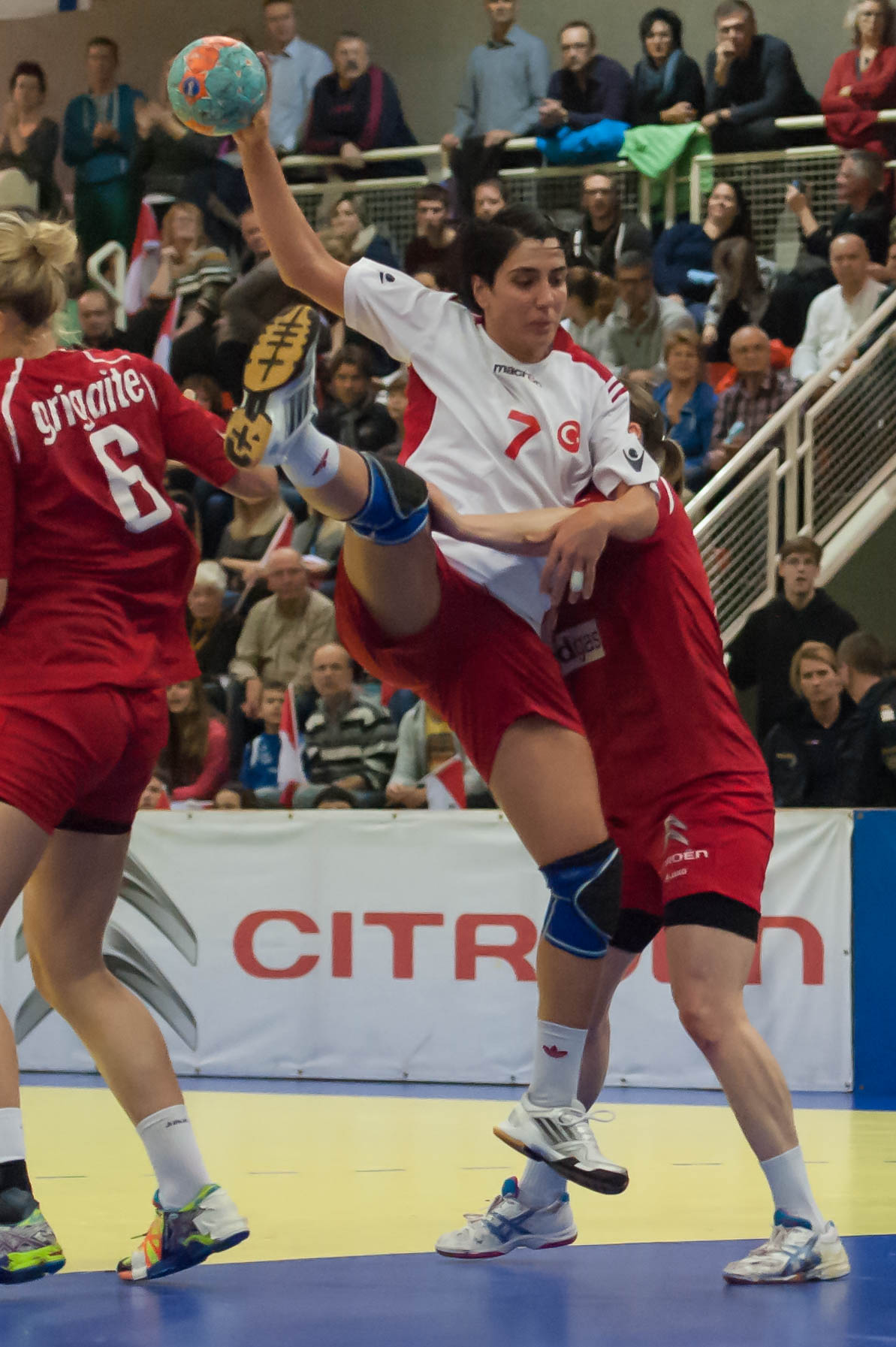 2015 World Women's Handball Championship Qualification 2014-12-06: Yeliz Özel